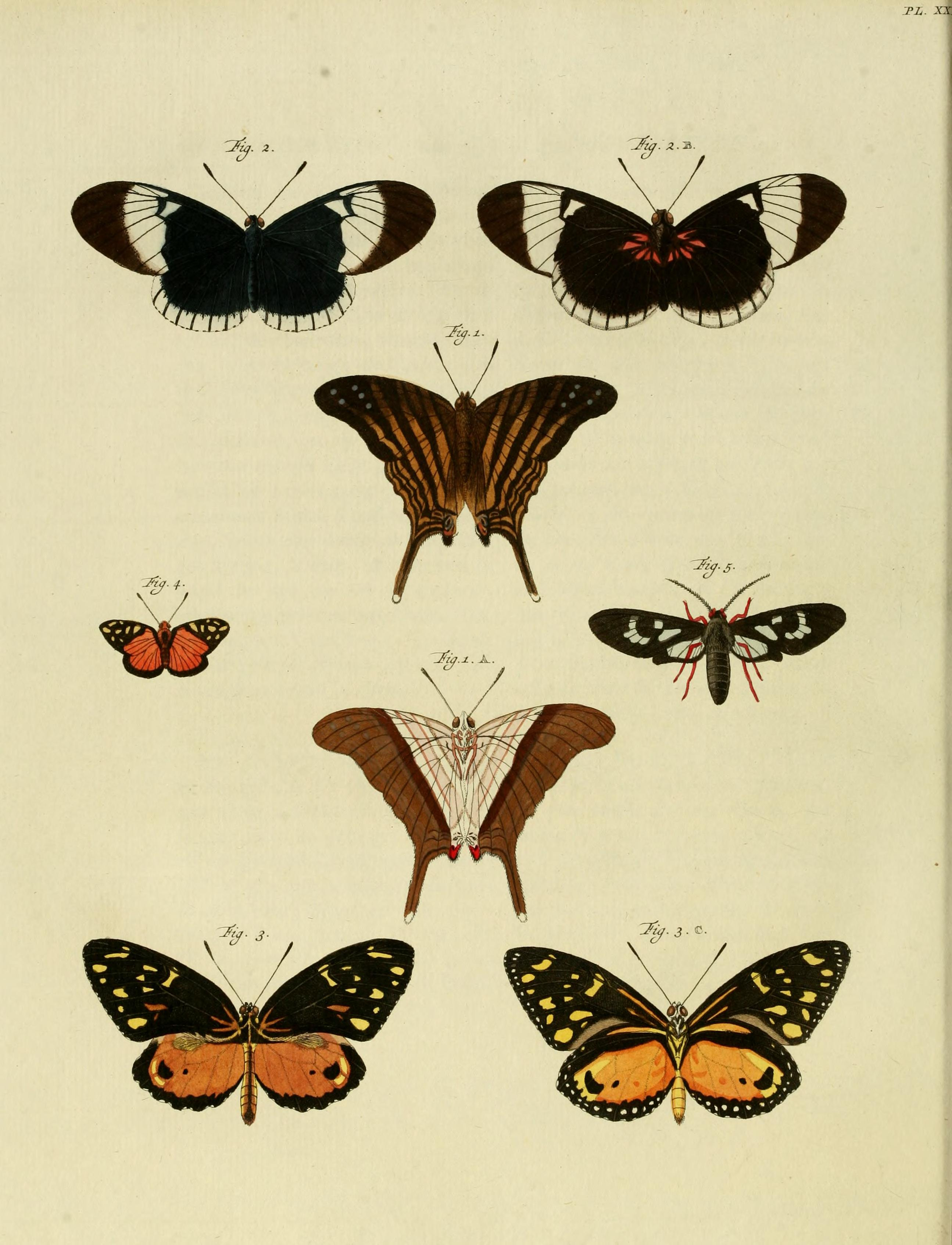 Plate XXX Warning: some taxa/names may be misidentified/misapplied or placed in a different genus. 1: Pap[ilio] Eq[ues] Achiv[us] MARIUS ( = Marpesia chiron marius (Cramer, [1779]), see Funet). Photos at Butterflies of America. Female. Male on pl. 200 D, E. 2: Pap[ilio] Helicon[ius] SAPHO ( = Heliconius sapho (Drury, [1782]), see Funet). Photos at Butterflies of America. 3: Pap[ilio] Helicon[ius] IRENE ( = Tithorea harmonia irene (Drury, 1782), see Funet). Photo at Butterflies of America. Tithorea harmonia on pl. 190 D as [Papilio] Harmonia. 4: Pap[ilio] Pleb[ejus] Rural[is] MENETES ( = Symmachia menetas (Drury, 1782), see Funet). Photos at Butterflies of America. In register spelled MENETAS. 5: Sphinx Adscit[a] FENESTRATA ( = Cosmosoma fenestrata (Drury, [1773]), see Funet). Photos at Moths of Jamaica.